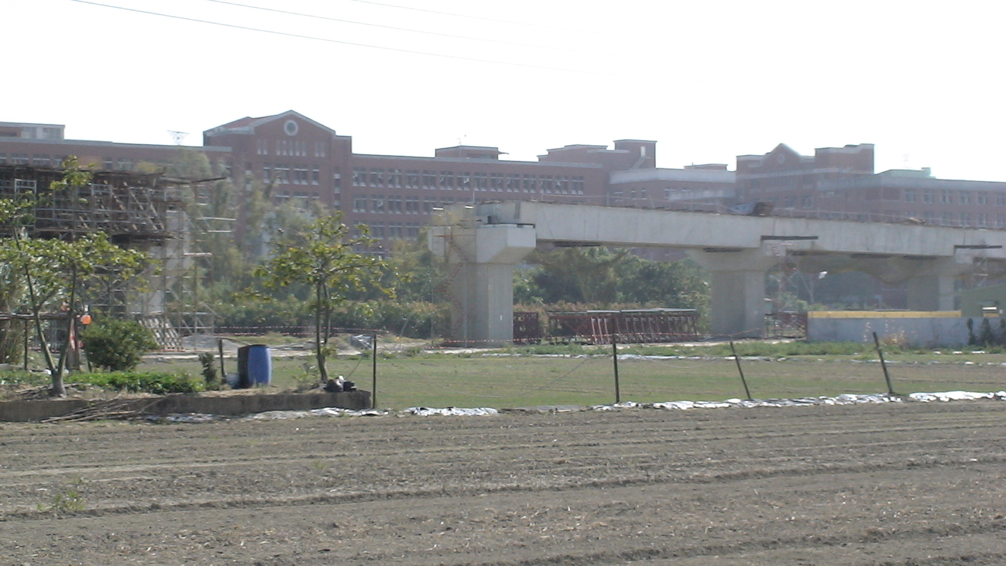 The Construction of Shualun Line at K3+400, Tainan, Taiwan, by koika.